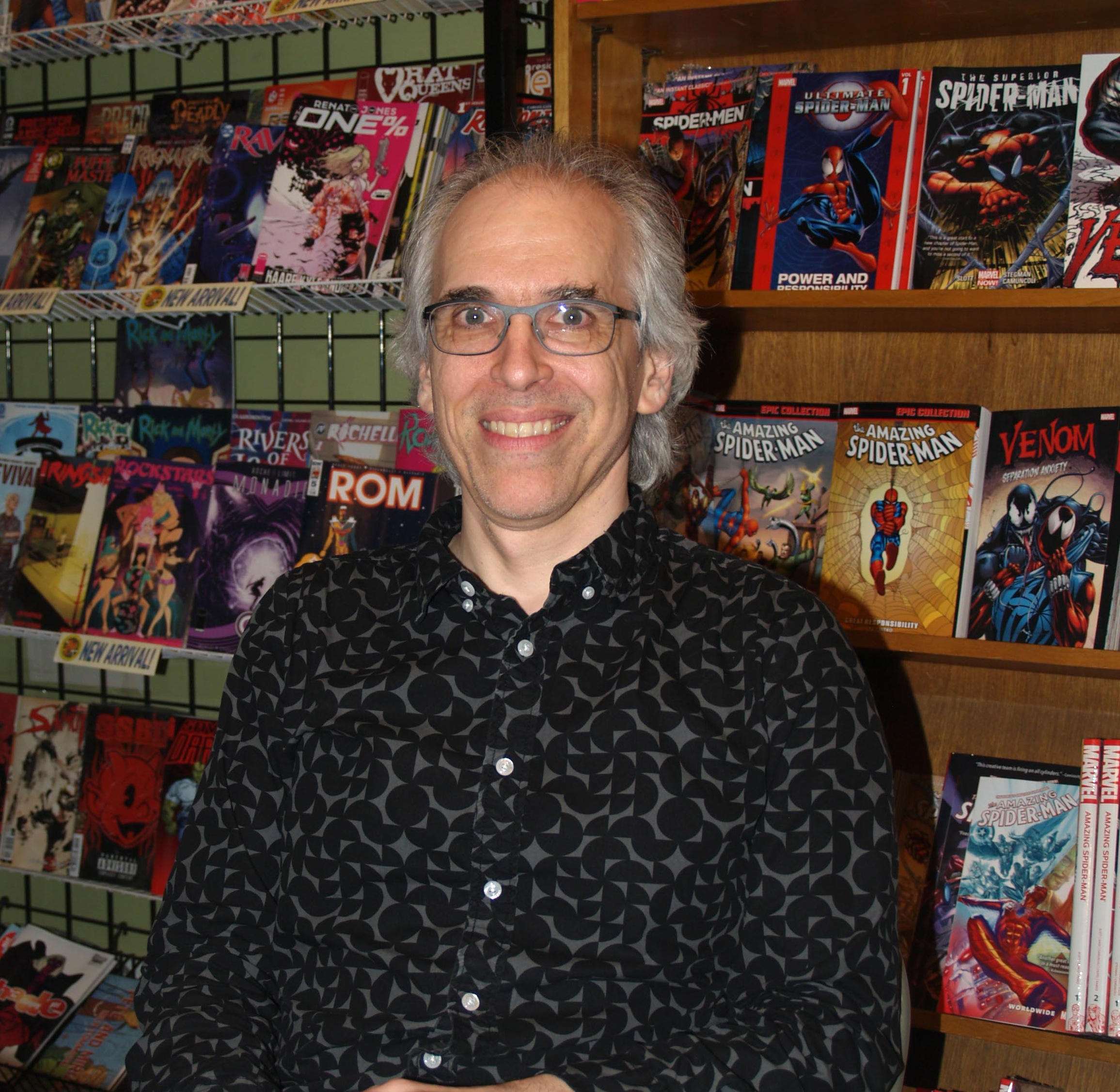 Cartoonist Robert Sikoryak a January 20, 2017 book signing at JHU Comics in Manhattan for Unquotable Trump, Sikoryak's collection of parody comic book covers depicting Donald Trump (who was inaugurated President that same day) illustrated in the style of iconic comic book covers from the Golden, Silver, and Bronze Age of Comic Books. This photo was created by Luigi Novi. It is not in the public domain, and use of this file outside of the licensing terms is a copyright violation.